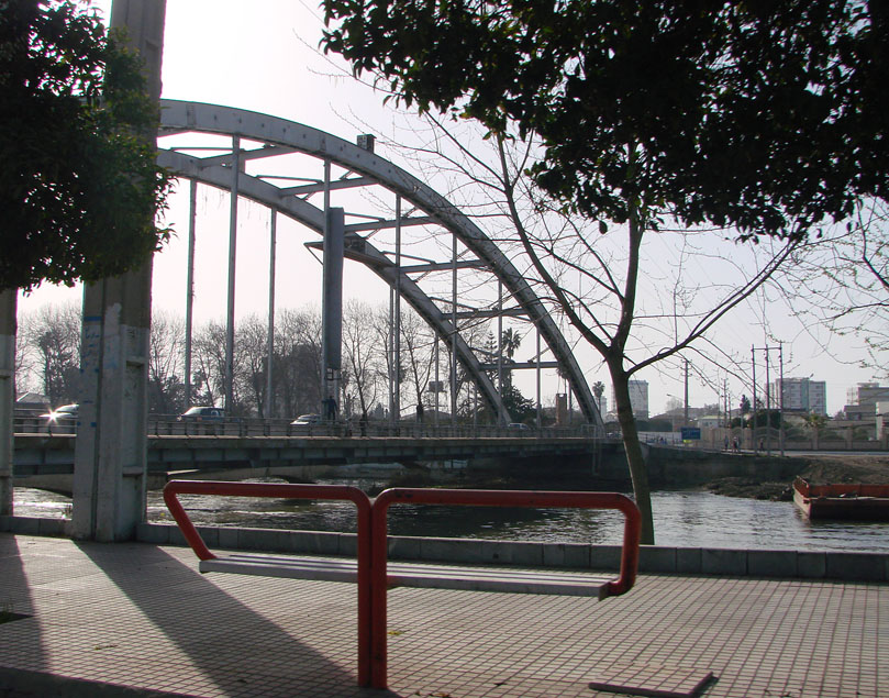 babolsar Bridge